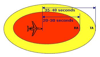 TCAS II Envelope